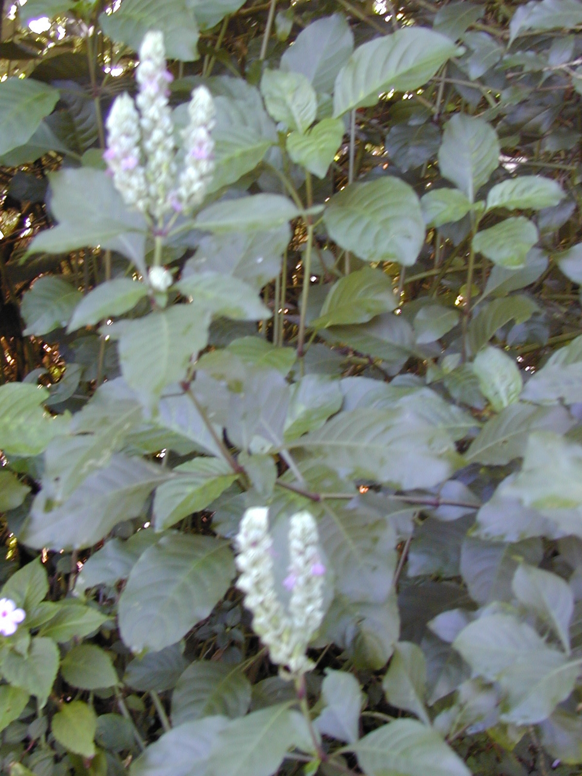 Justicia betonica (flowers). Location: Maui, Nahiku